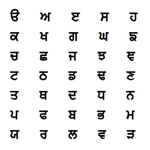 Punjabi alphabetic excluding vowels.